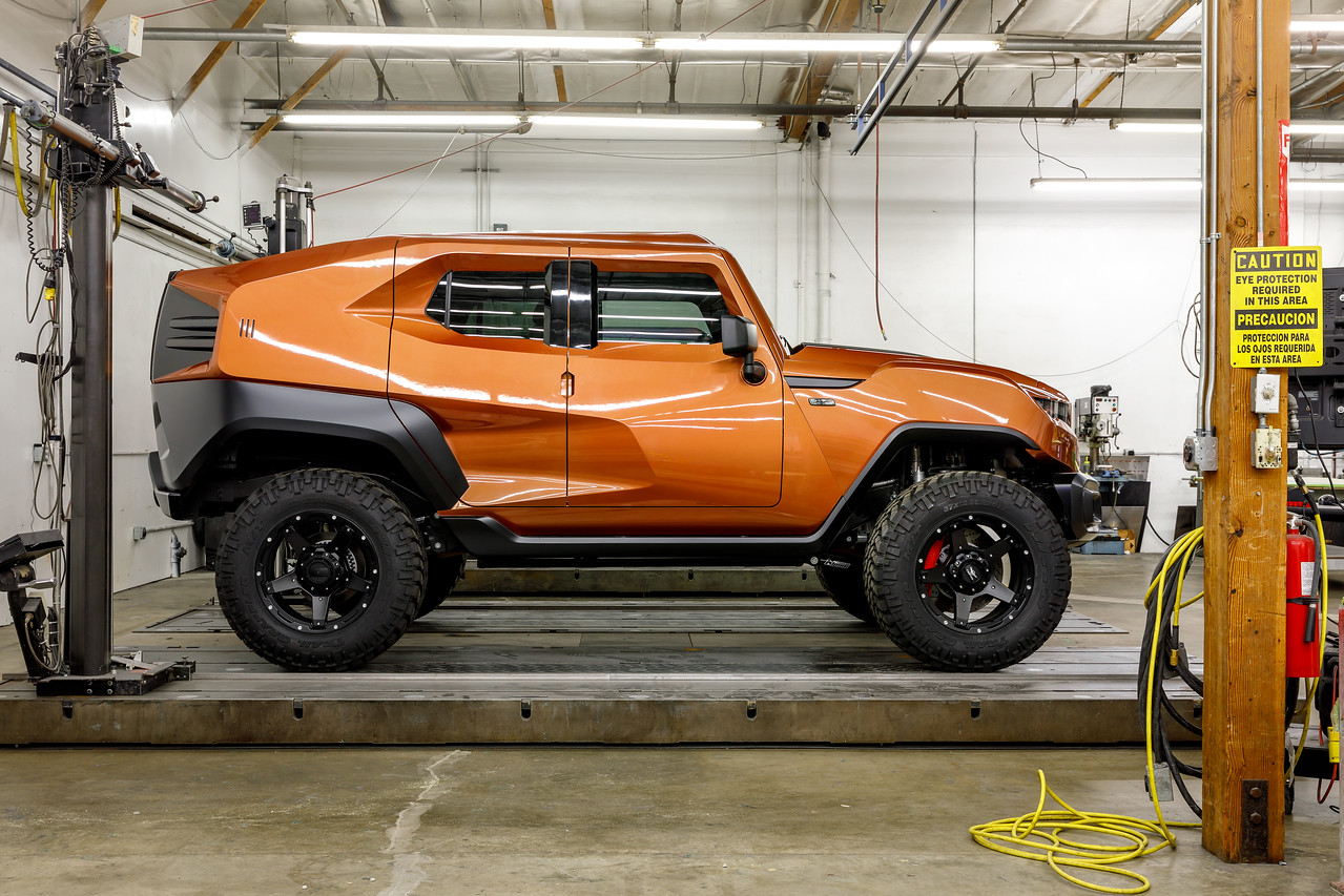 This is an image of Rezvani Tank